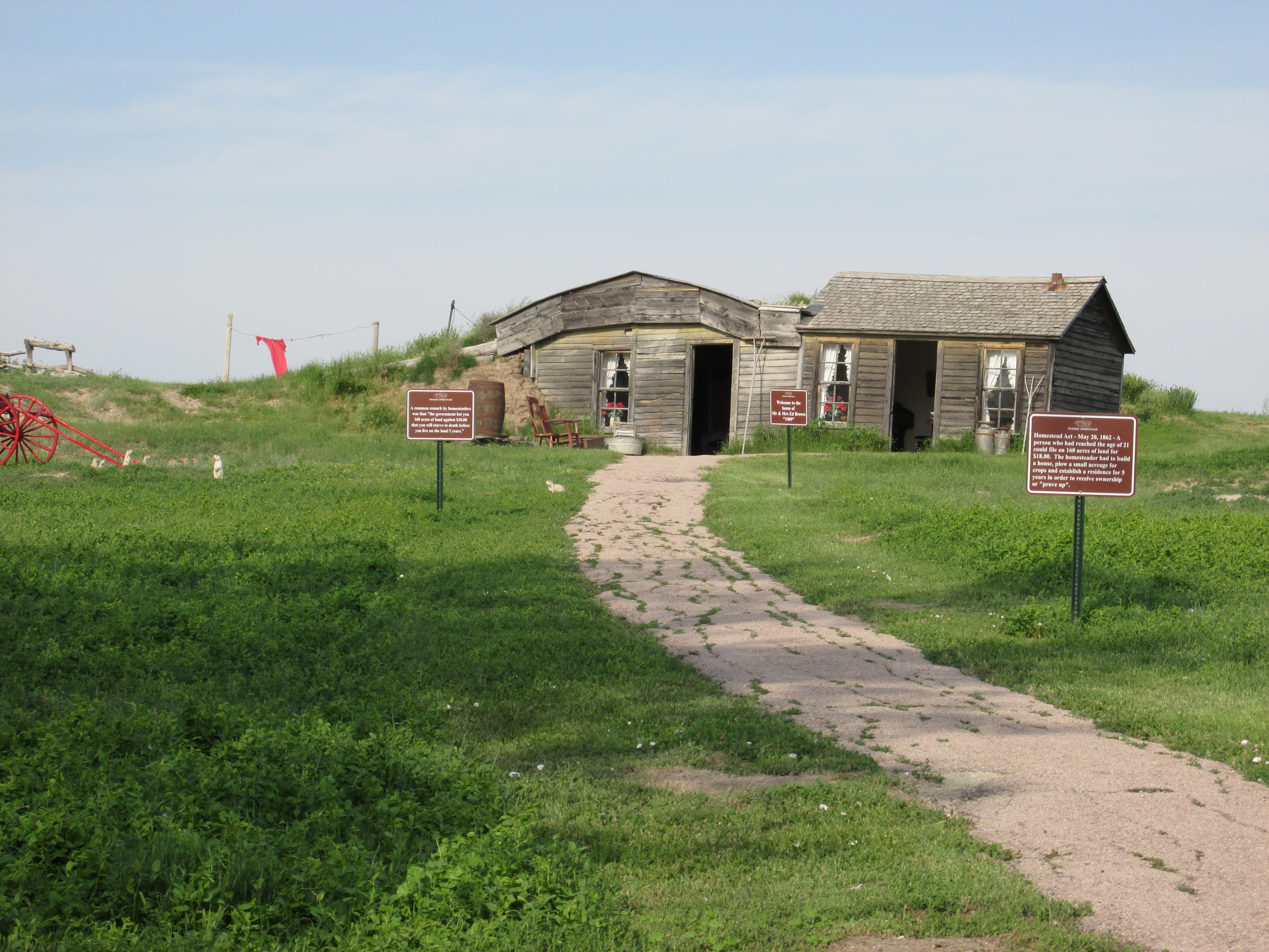 Prairie Homestead — a historic sod house, on state Highway 240 north of Interior, in Jackson County, western South Dakota. Present day museum located northeast of Category:Badlands National Park, and on the National Register of Historic Places.